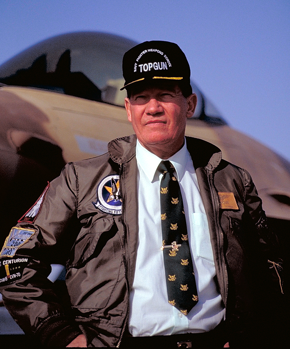 Congressman Randy "Duke" Cunningham at TOPGUN, 1992.